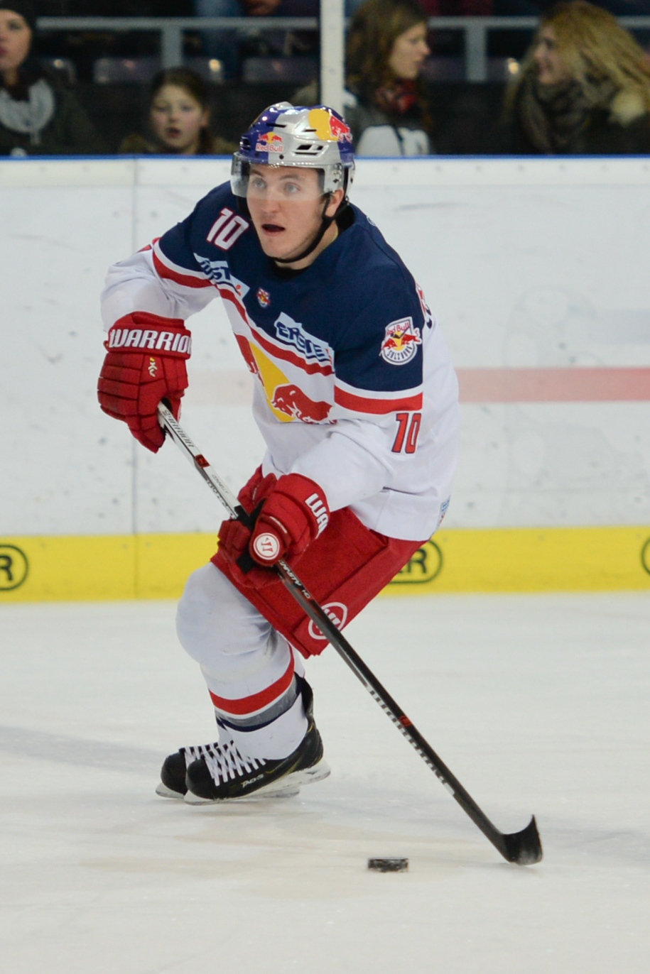 EBEL Red Bull Salzburg vs Olimpija Ljubljana 2016-01-17